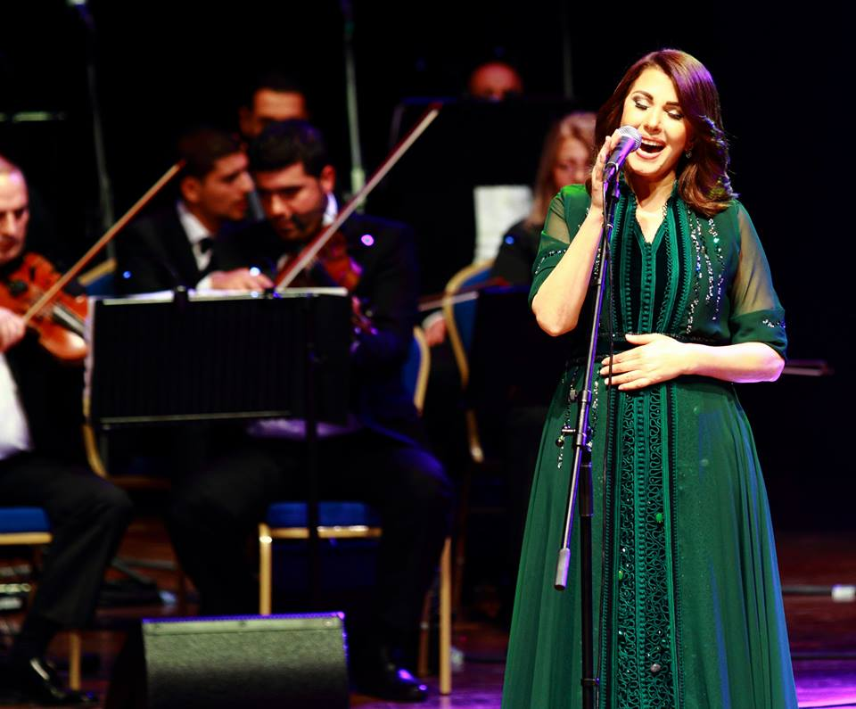 Majida performing during the 70th Lebanese independence anniversary in Abu Dhabi National Theater in November 2013.